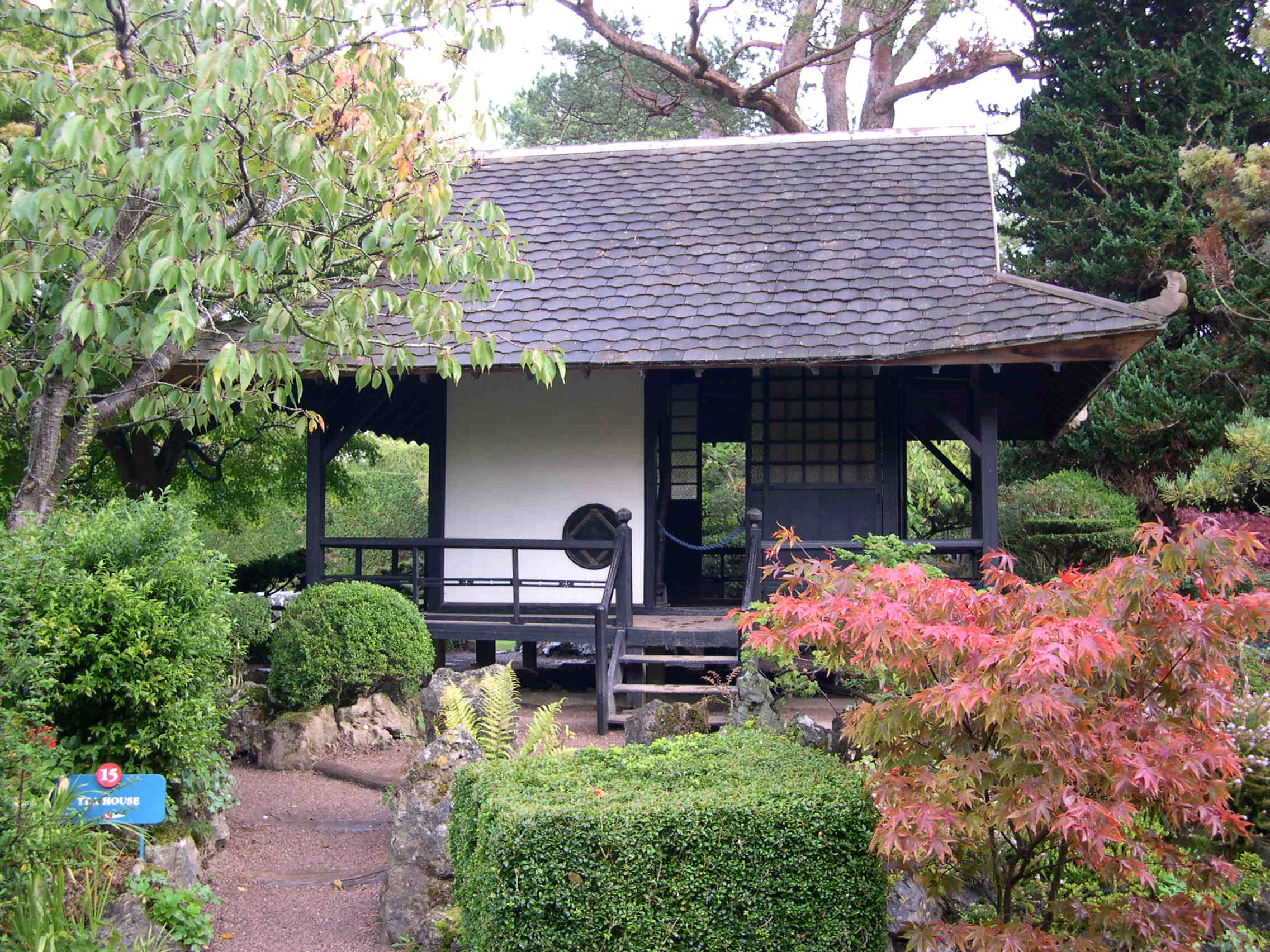 Tea House, Japanese Gardens, Tully, County Kildare, Republic of Ireland